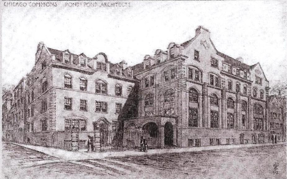 Architectural drawing, "Chicago Commons," Pond and Pond architects